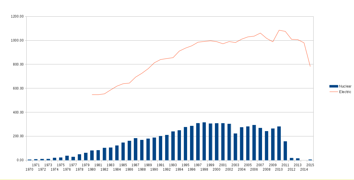 Historical nuclear generation share in Japan